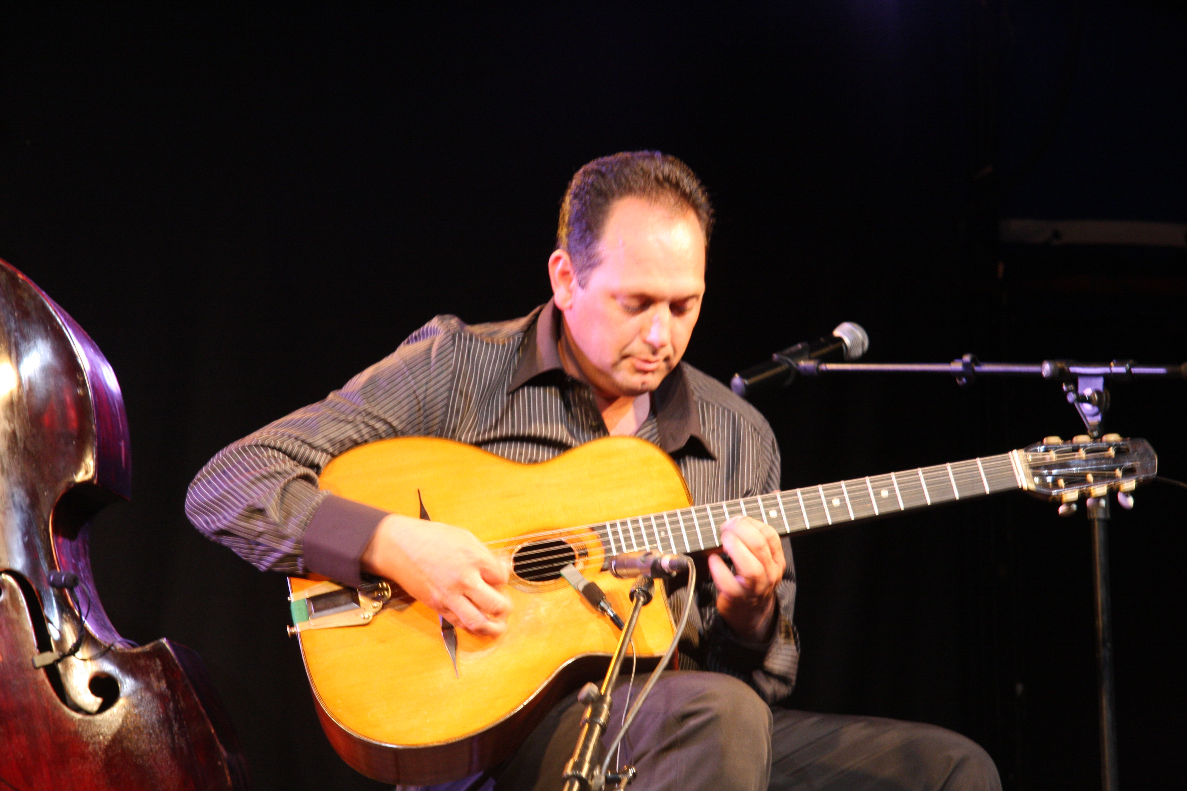 the Rosemberg Trio in the twentieth music festival Fort en Jazz in 2009 in Francheville, France. Stochelo Rosenberg (soloist) Nous'che Rosenberg (rhythm guitar) Nonnie Rosenberg (double bass) The making of this document was supported by Wikimédia France. (Submit your project!)